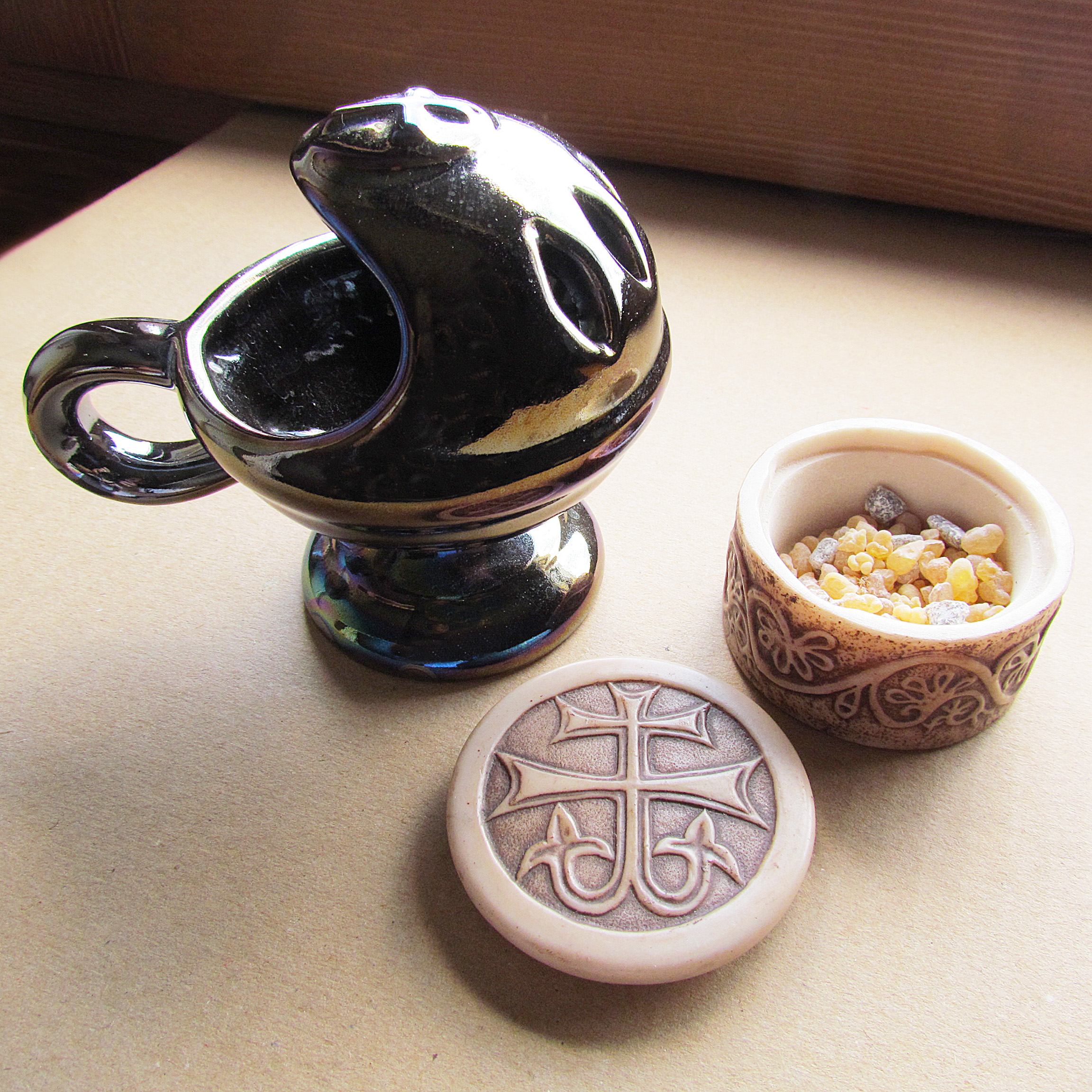 Censer and incense box from Serbia